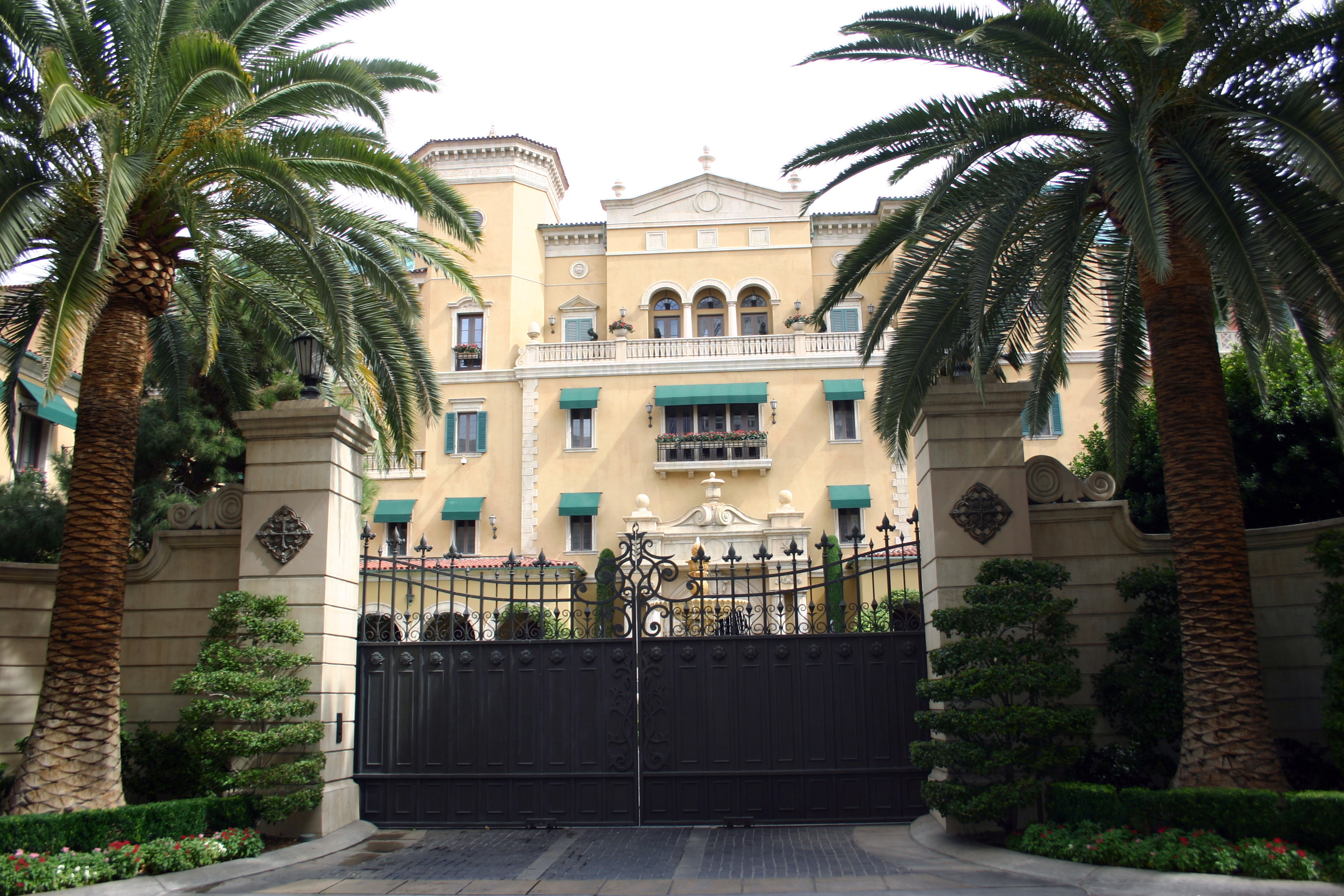 The main entry to the Mansion at MGM Grand.